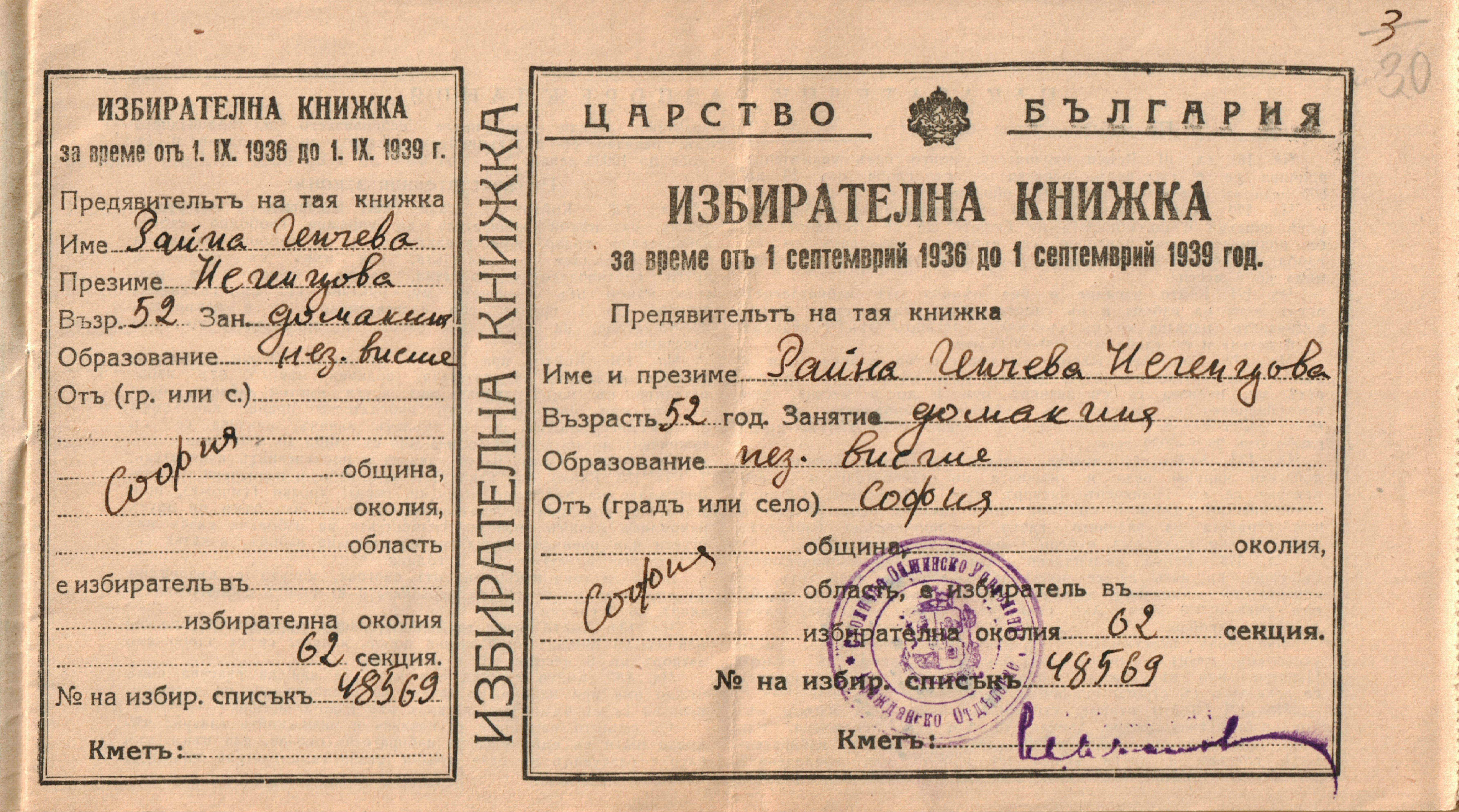 Document of Rayna Negentsova